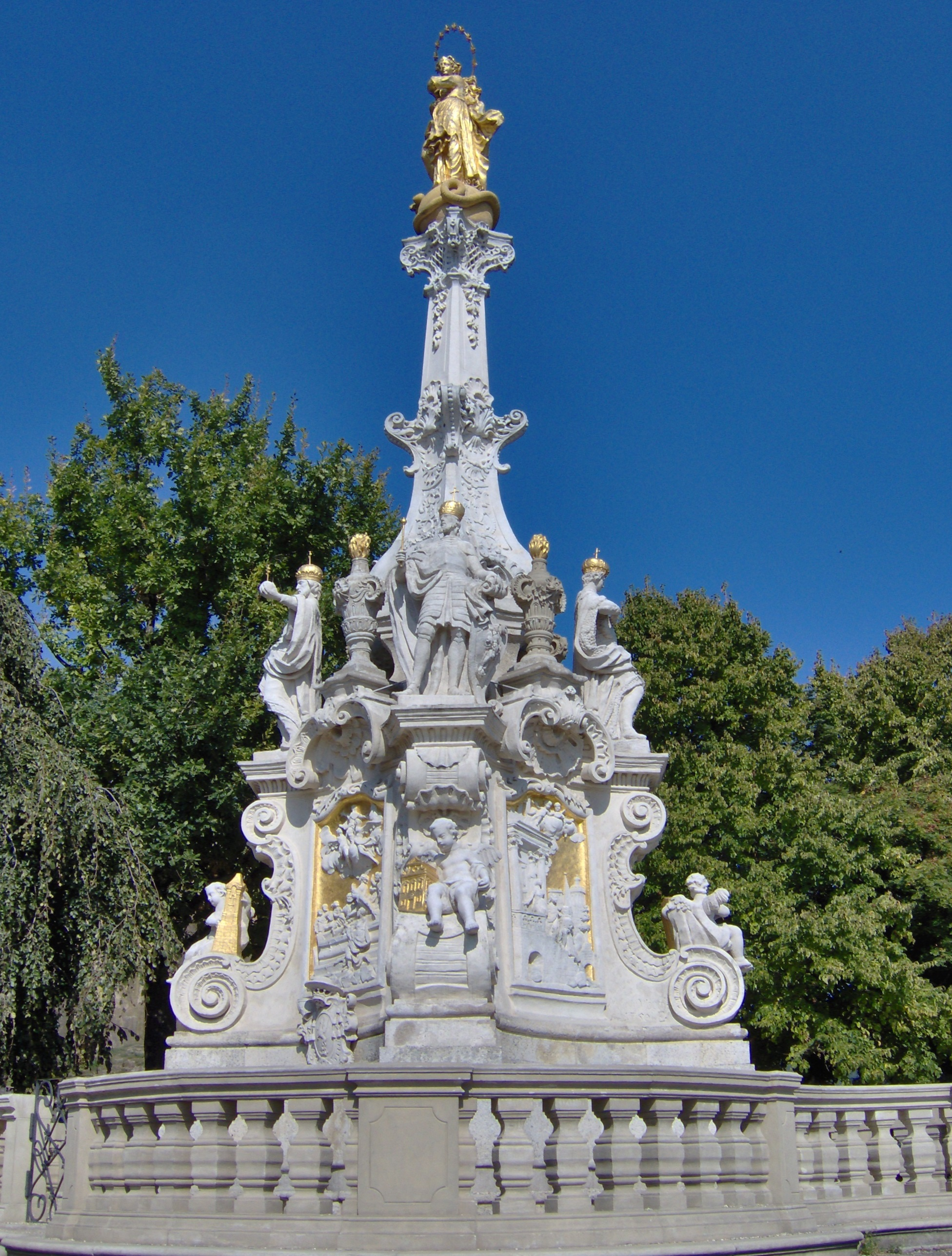 Marian plague column in Nitra